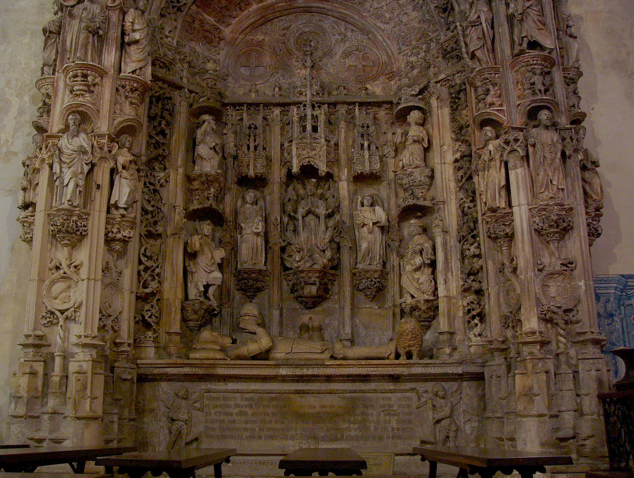 Manueline (16th c.) tomb of King Afonso Henriques in the Santa Cruz Monastery of Coimbra, Portugal